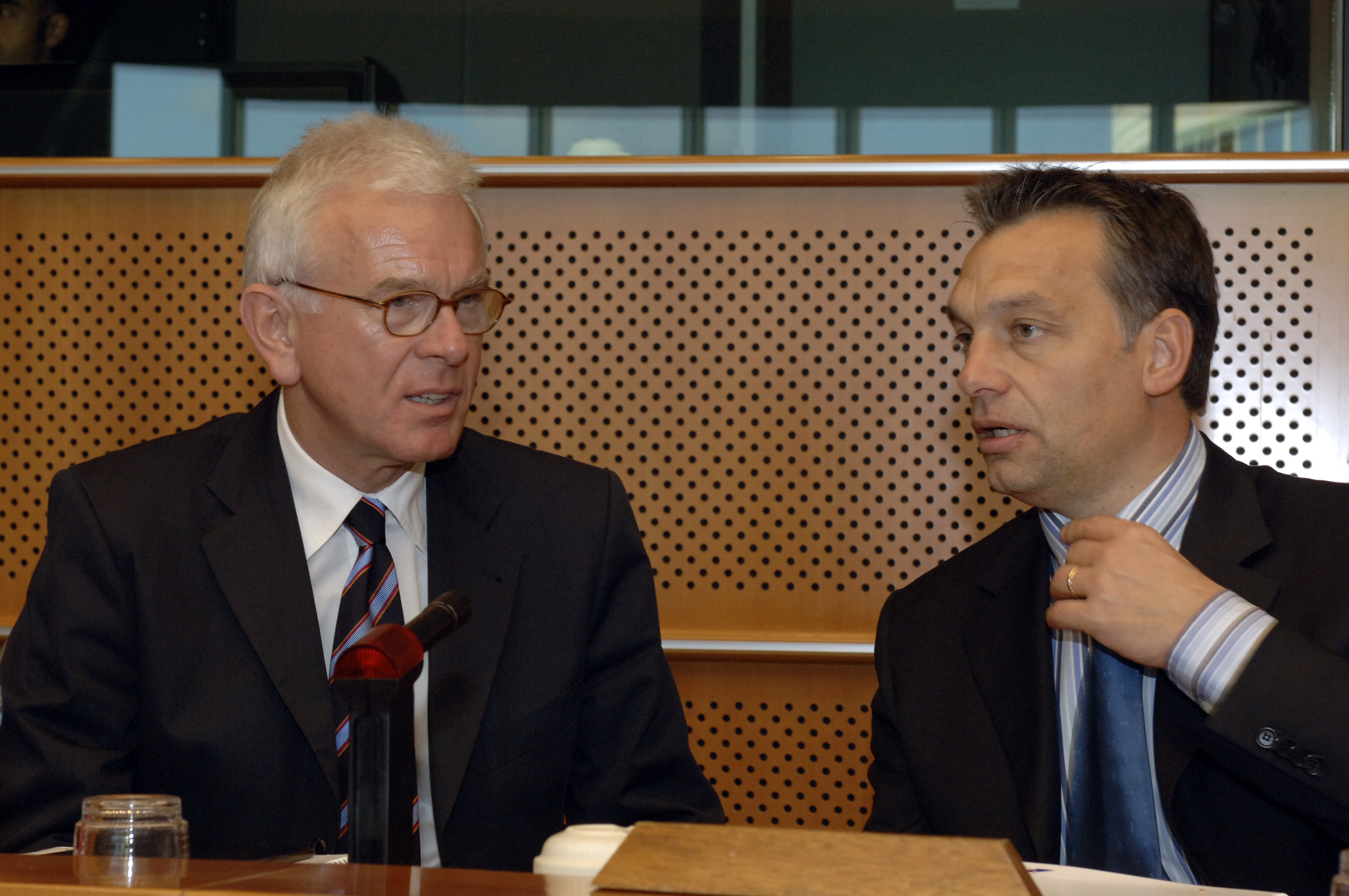 EPP Political Bureau 9 November 2006